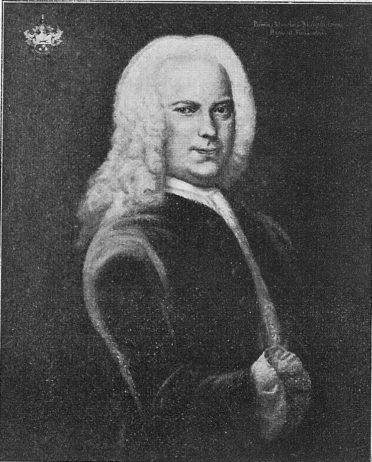 Portrait of Bredo Munthe af Morgenstjerne (1701-1757)